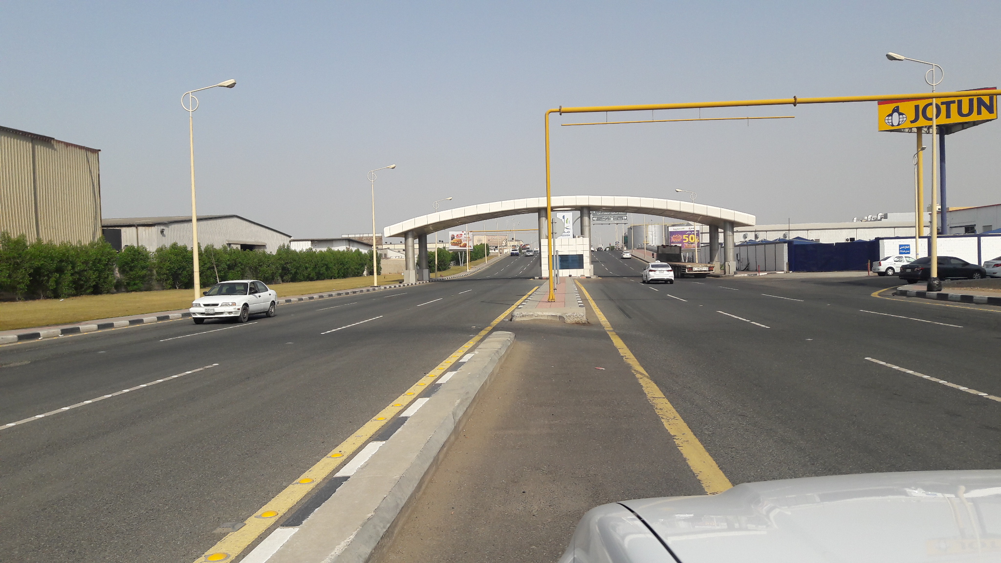 Jeddah 1st Industrial City